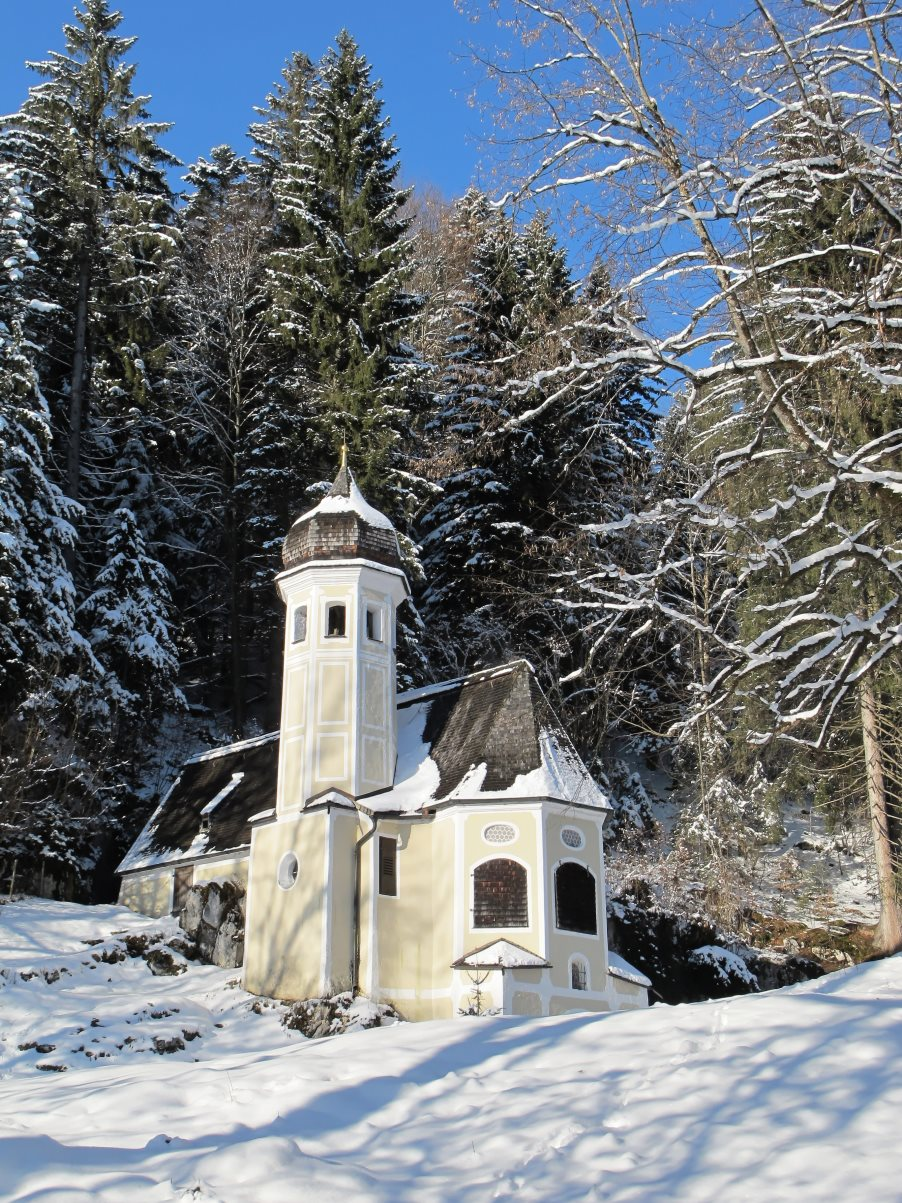 Village "Sachrang", Chapell "Mount of Olives" / "Ölbergkapelle"